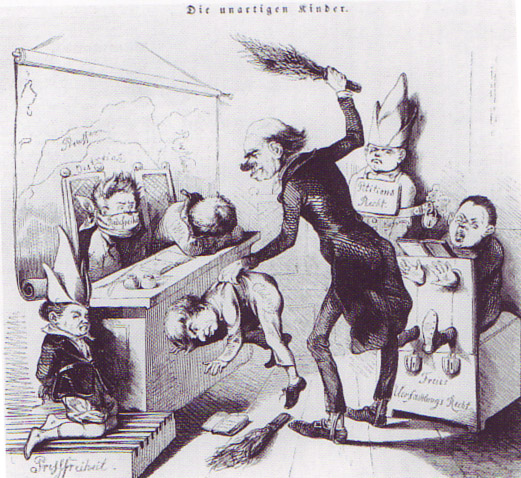 caricature "the naughty children", 1849. The inscriptions read: "Freedom of the press", "freedom of petition", "freedom of assembly", "freedom of speech" and "freedom of association". The map in the background bears the inscriptions "Prussia" and "Austria".